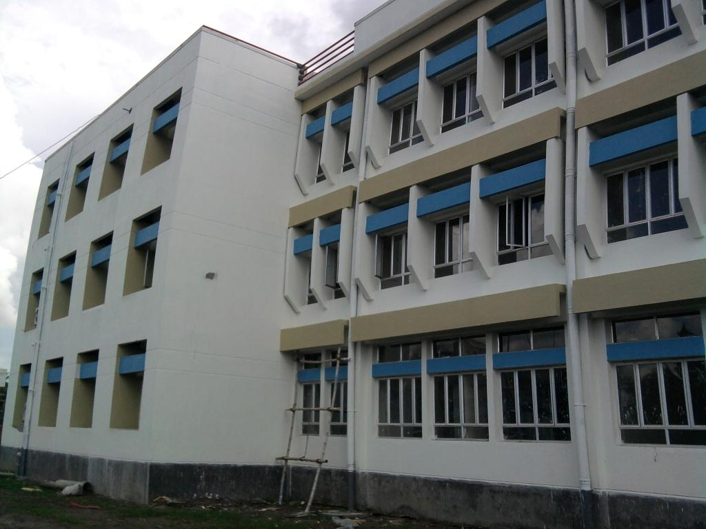 com&jnmh